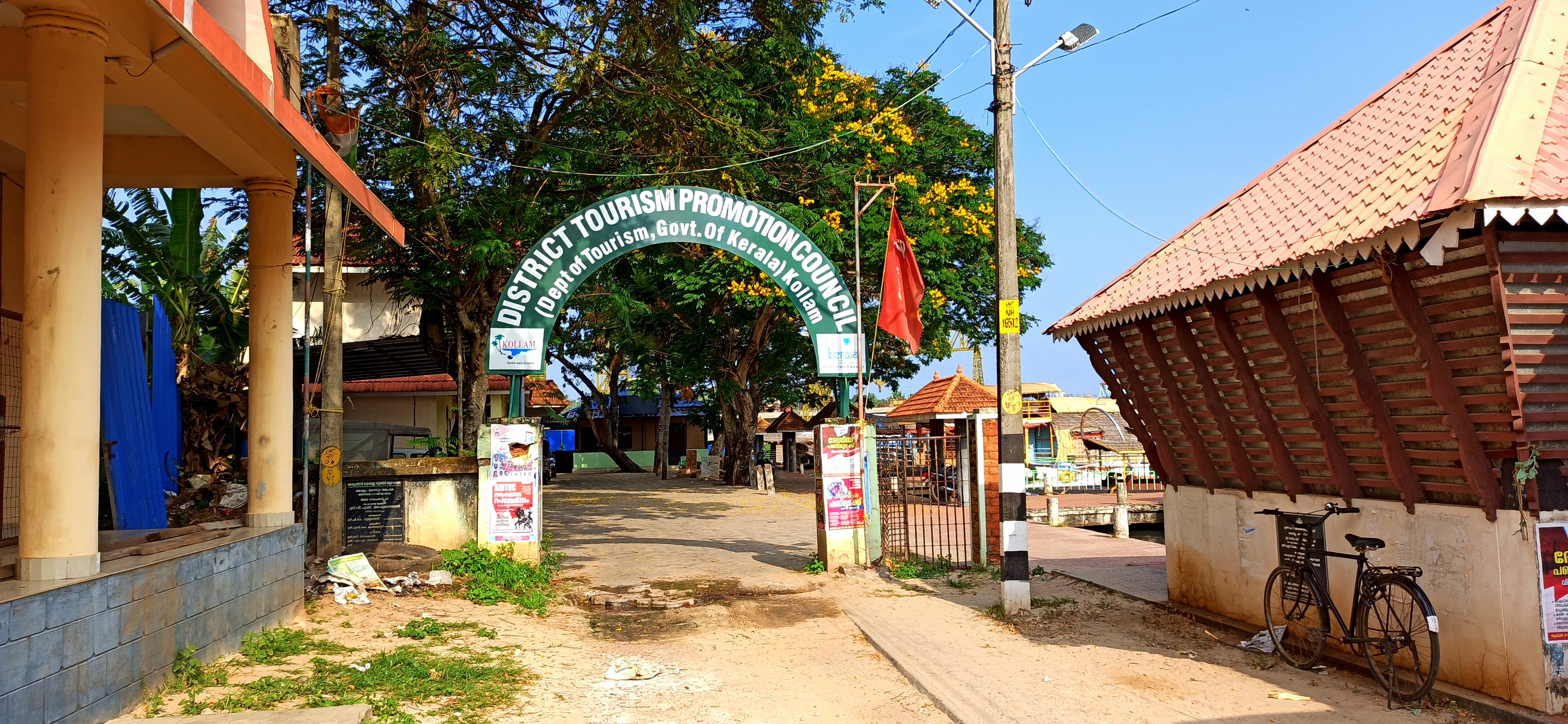 District Tourism Promotion Councils (DTPCs) have been set up in all the 14 districts of Kerala to provide constant assistance and information to visitors